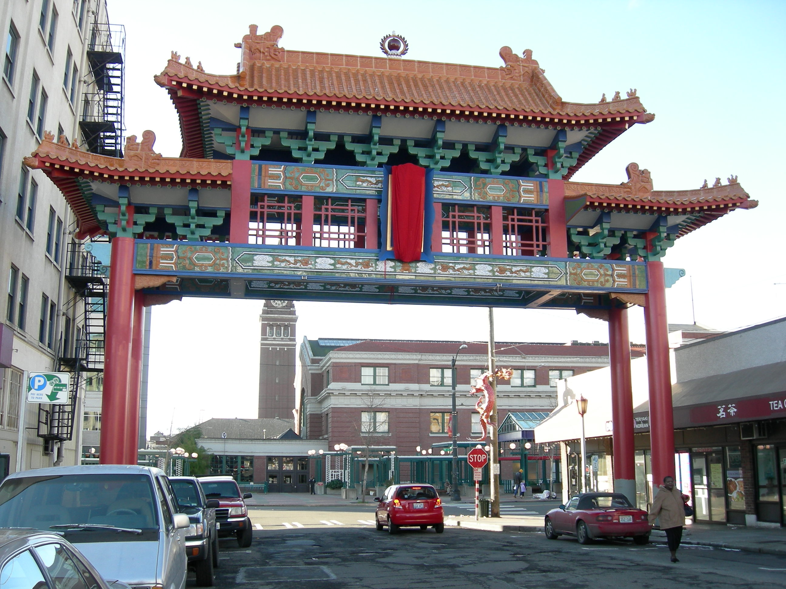 Seattle's new Chinatown gate (formally "Historic Chinatown Gate"), International District, Seattle, Washington. Photo taken about two weeks before its formal 8 February 2008 unveiling. In the background are both of Seattle's passenger railway stations, each of which is on the National Register of Historic Places.